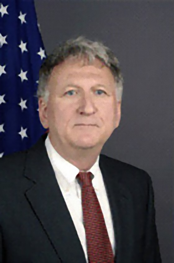 Robert Joseph